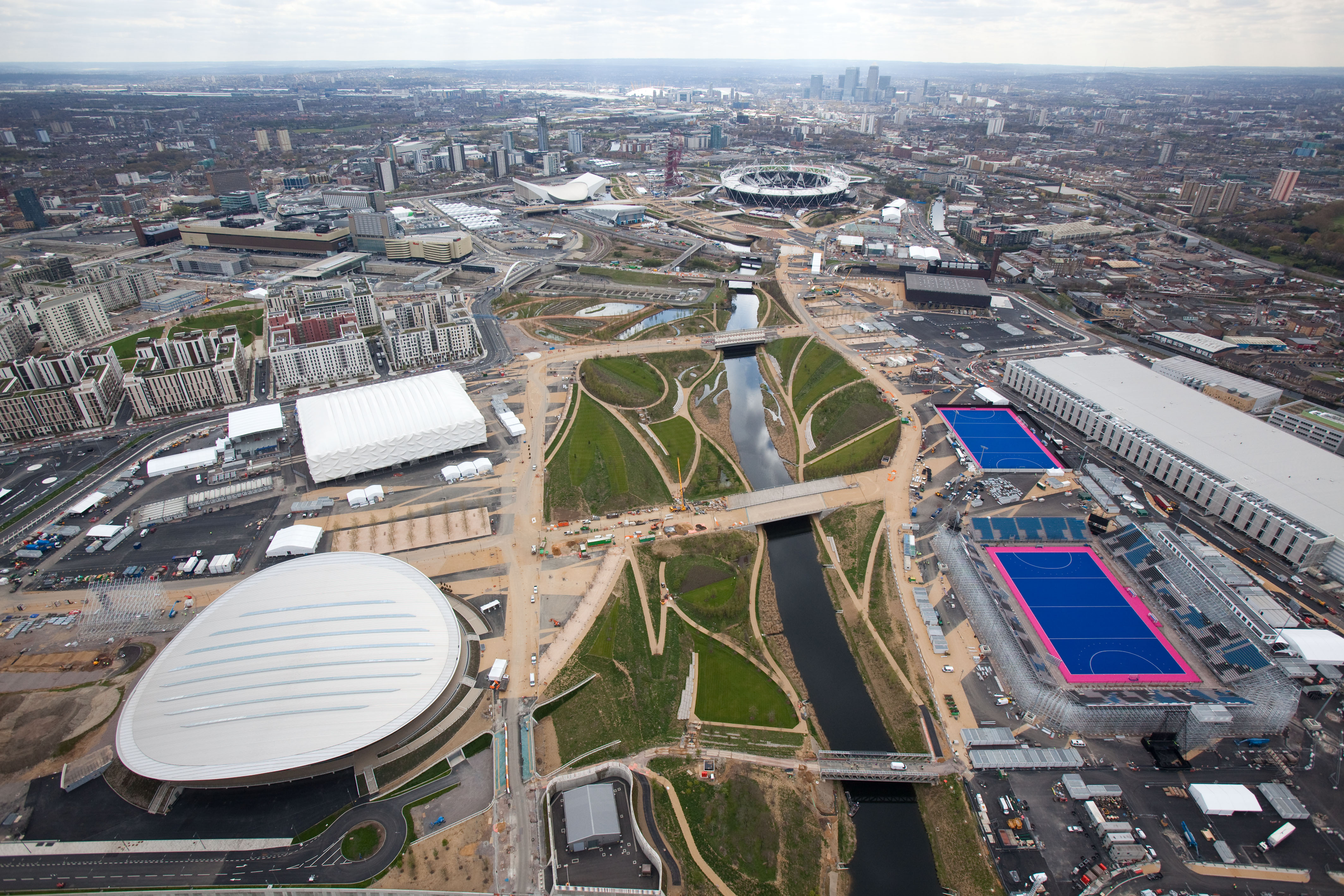 Construction of Olympic Park, London — (April 2012). Aerial view of the Olympic Park looking south towards Canary Wharf. The restored River Lea flows through center of park. Riverbank Arena field hockey venue on right (fields are the 2 vivid blue squares). Picture taken on 16 April 2012.